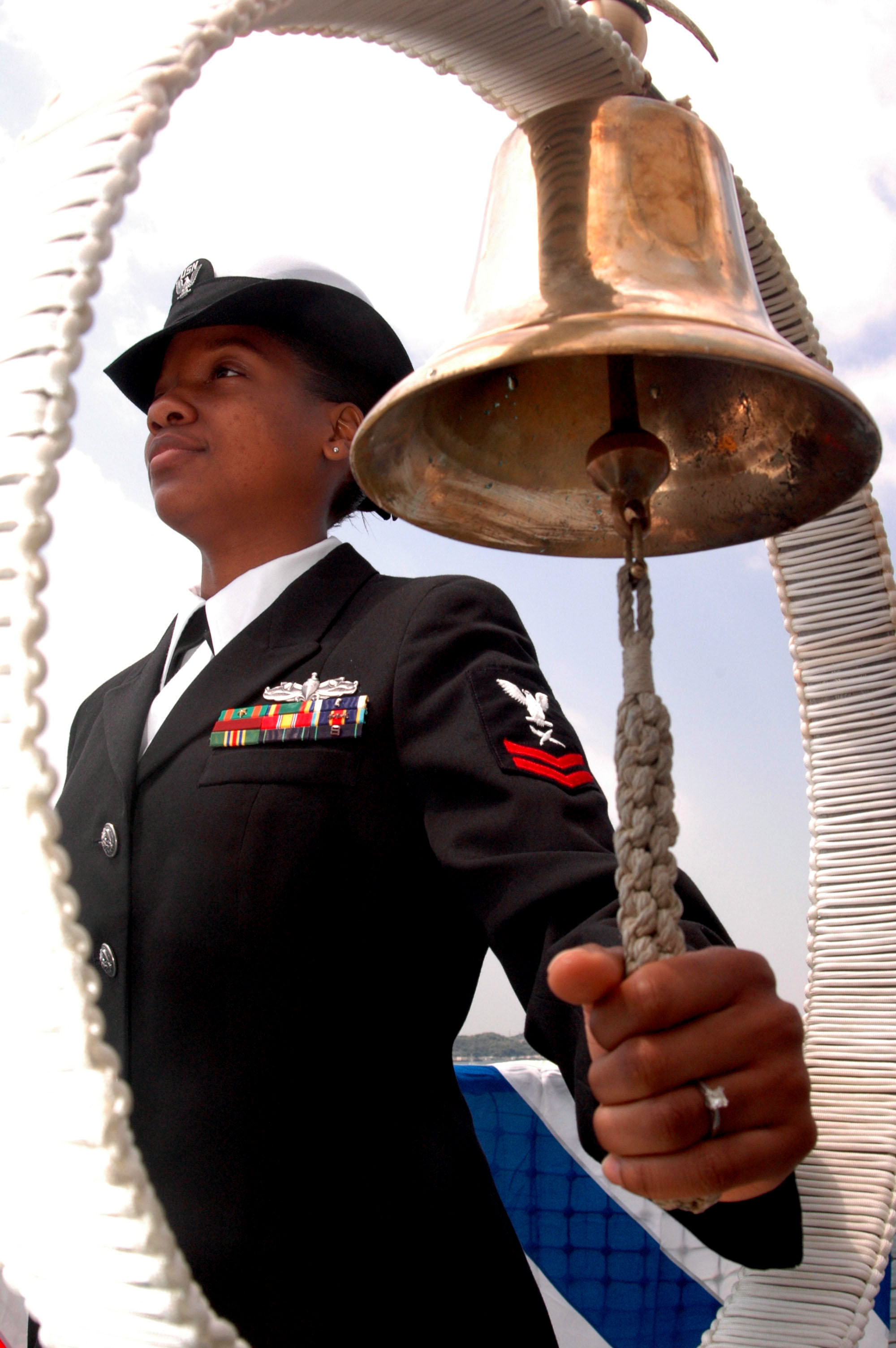 050422-N-9389D-148 Yokosuka, Japan (April 22, 2005) - Communications Technician 2nd Class Shauna Lewis of Johnsonville, S.C., stand-by to ring the bell on the aft flight deck aboard the guided missile cruiser USS Chancellorsville (CG 62) for the departure of the official party during a change-of-command ceremony. Change-of-command ceremonies are held to honor outgoing commanding officers as they turnover duties to oncoming commanding officers. Currently in port, Chancellorsville demonstrates power projection and sea control as a forward-deployed Ticonderoga-class destroyer, operating from Yokosuka, Japan. U.S. Navy photo by Photographer's Mate Airman Benjamin Dennis (RELEASED)